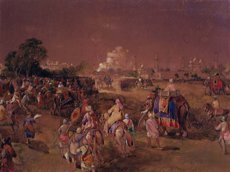 The arrival of Lord Canning at Lahore, February 1860; a watercolor by William Simpson, 1860* (BL)